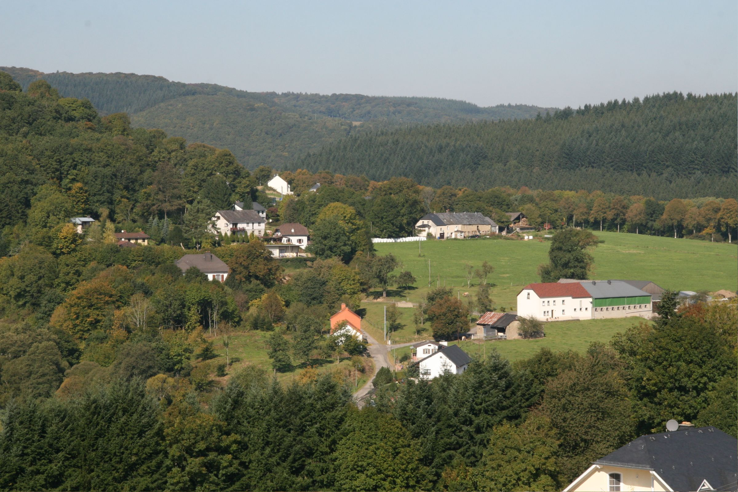 Obereisenbach, view from Übereisenbach in Germany.